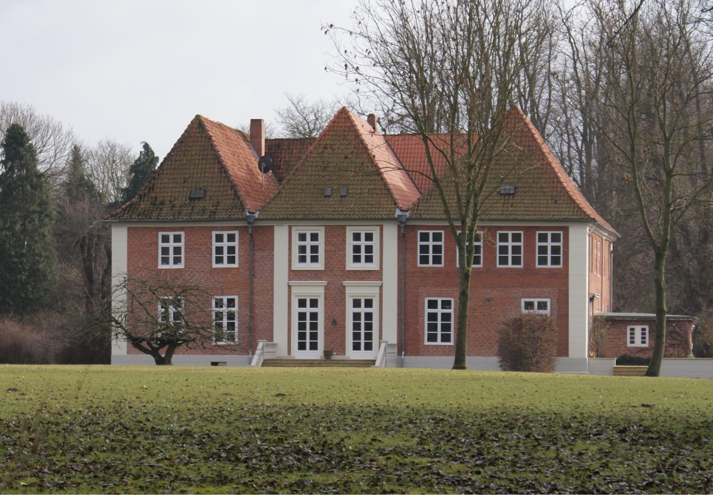 Ehlerstorf Manor